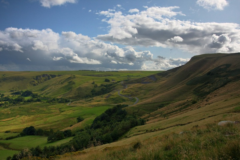 Mam Tor with Winnat's Pass in the distance taken from the ridge path between Mam Tor and Hollin's Cross